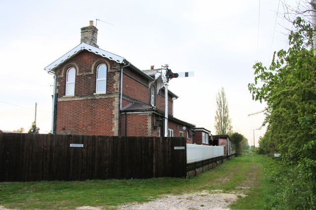 Pulham Market railway station Original description: The Old Railway Station Now a private house